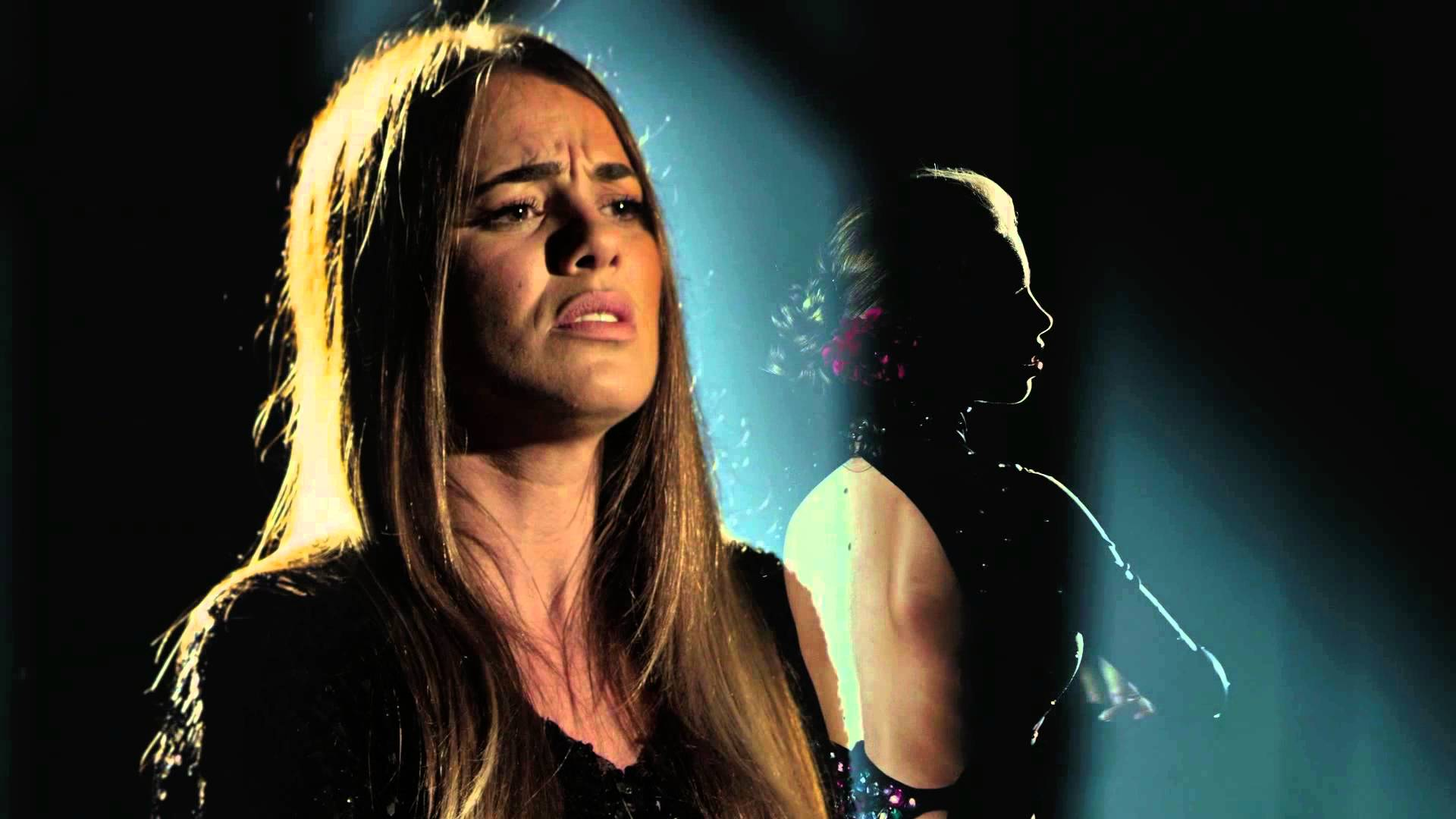 Fado Singer Gisela João